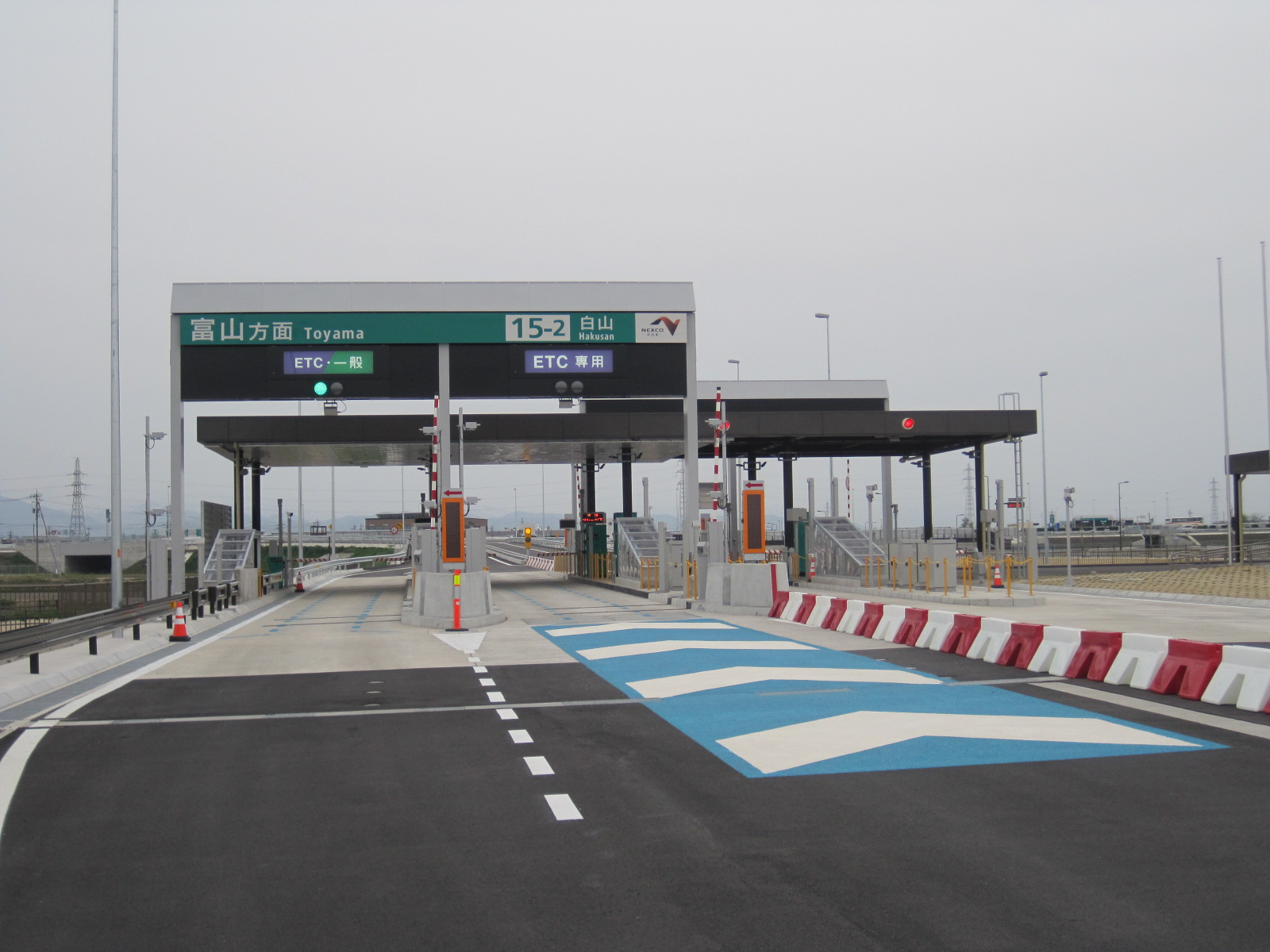 Hakusan Inter Change (Hokuriku Expressway, Ishikawa prefecture, Japan)